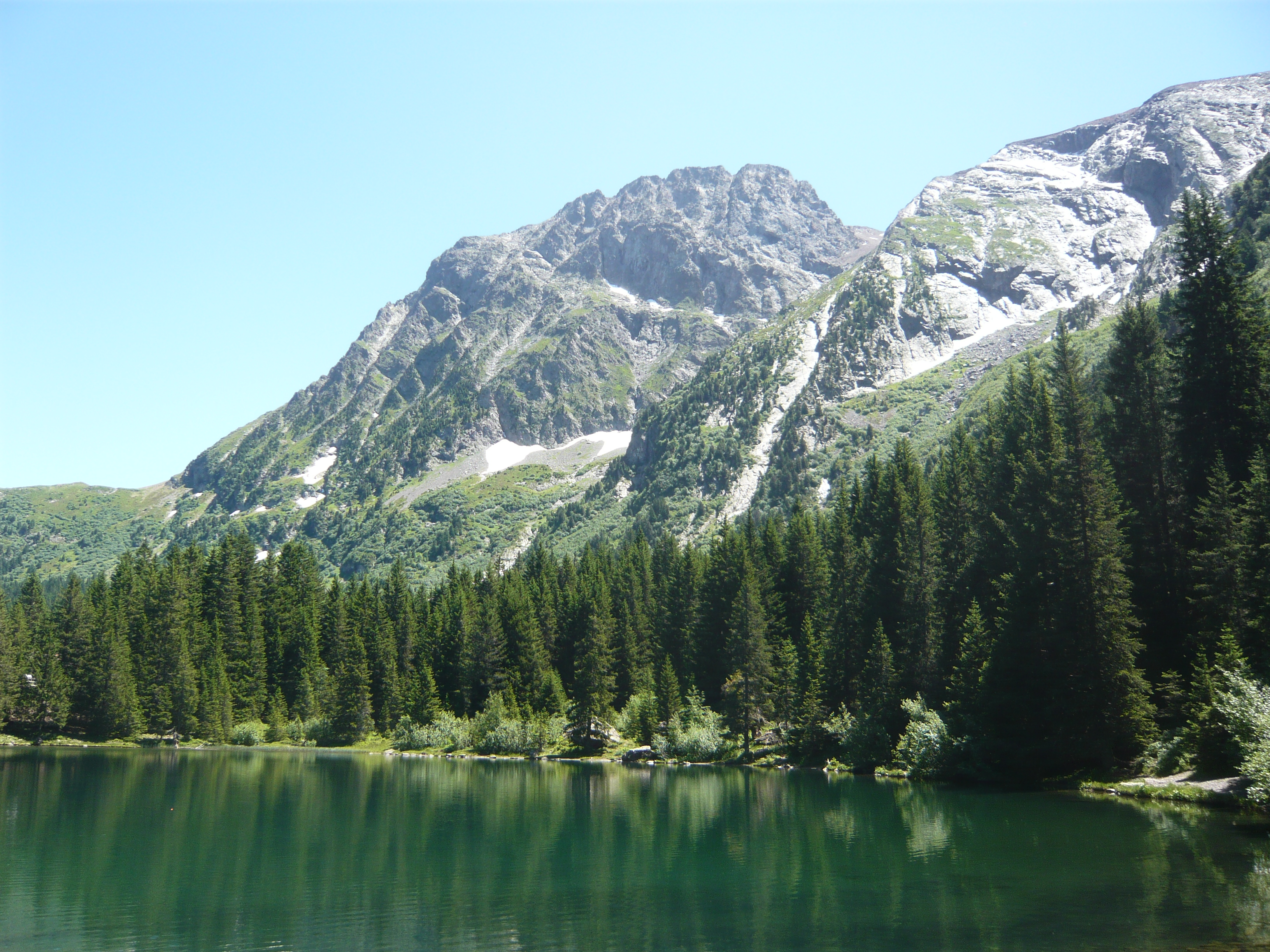 View of the Lake Poursollet (Lac du Poursollet). Livet et Gavet, Isère department, France. July 2008.